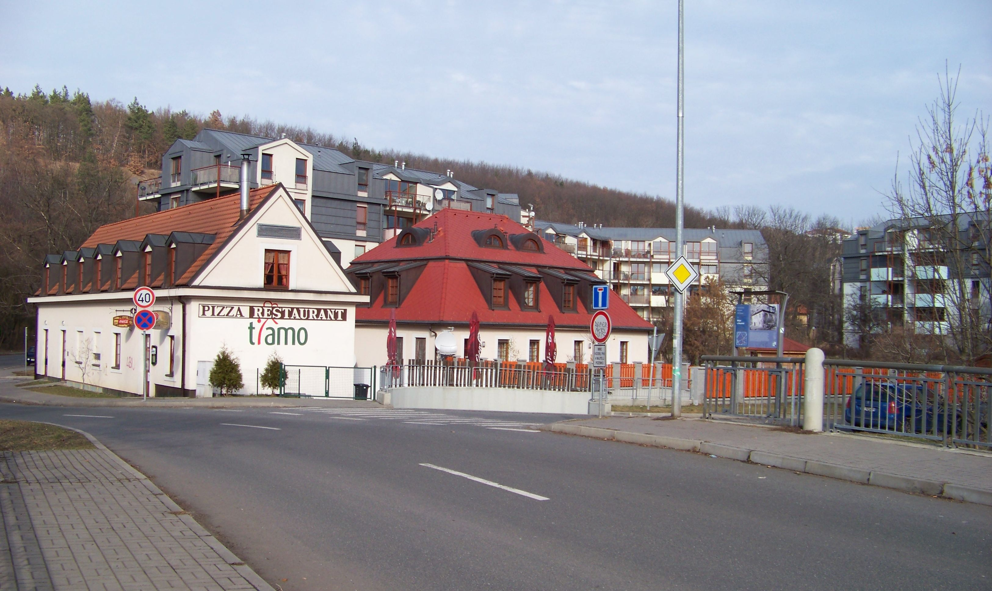 Prague-Libeň, the Czech Republic. Podvinný mlýn street, a former mill.